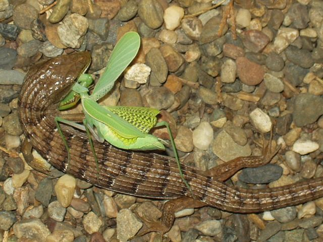 A Wikipedia:Southern Alligator Lizard (Elgaria multicarinata) attempting to eat a female preying mantis (possibly Mantis religiosa, introduced in the US in 1899). Central California. See also Image:Elgaria multicarinata eating mantis 1.jpg